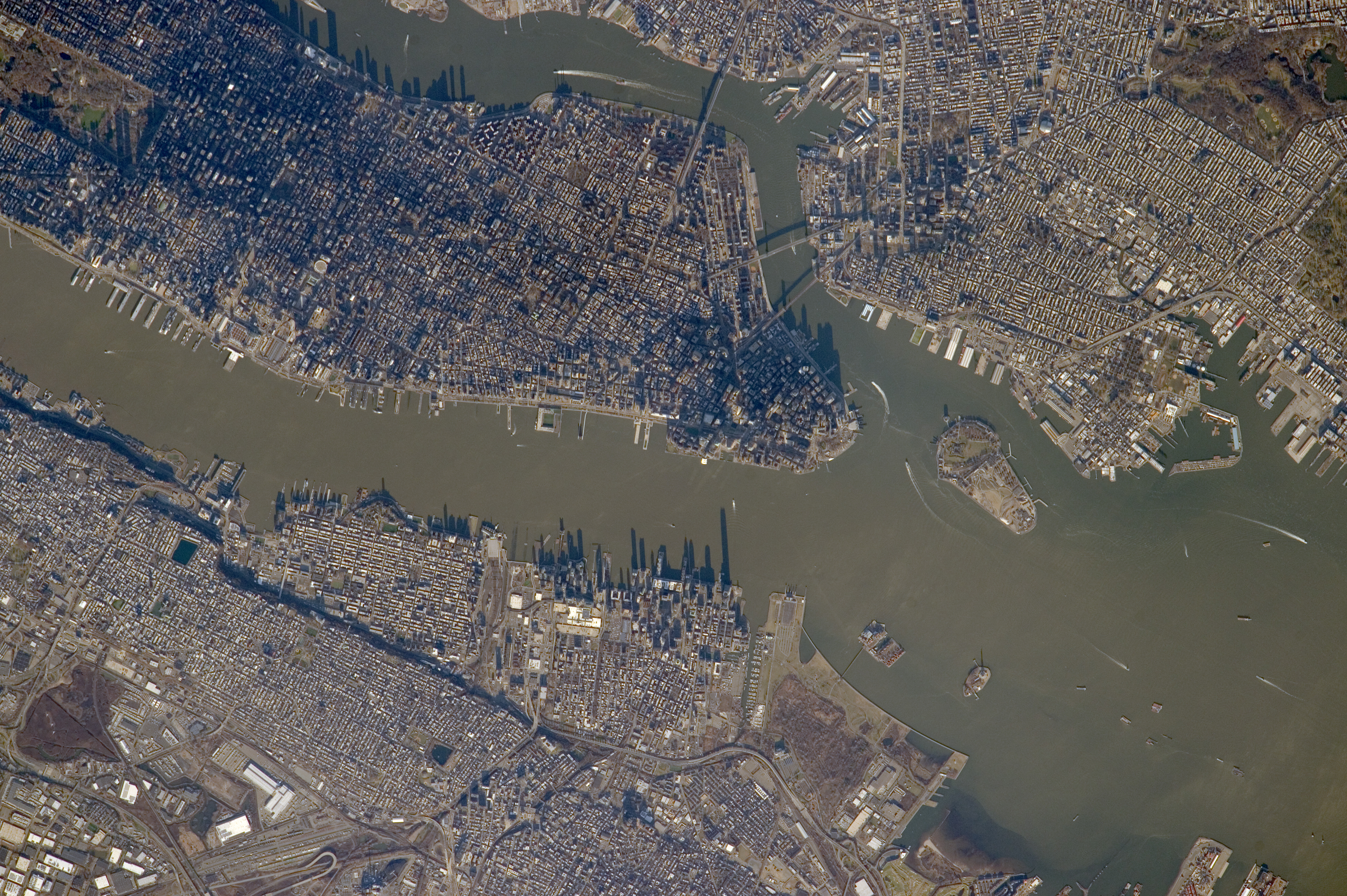 Earth Observation of New York from the International Space Station taken by NASA astronaut Scott Kelly on April 13, 2015 showing Manhattan.